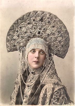 Princess Olga Konstantinovna Orlova (nee princess Beloselsky-Belozwersky) wearing a Kokoshnik for the 1903 Ball in the Winter Palace. Photograph by Elena Mrozovskaya, 50.5 x 36.5 cm